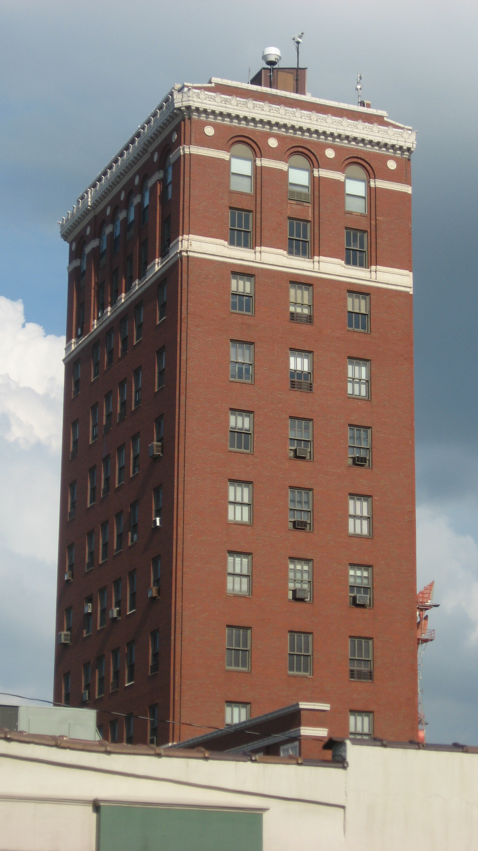 Northern side and rear of the Sycamore Building, located at 23-27 S. Sixth Street in Terre Haute, Indiana, United States. Built in 1922, it is listed on the National Register of Historic Places.